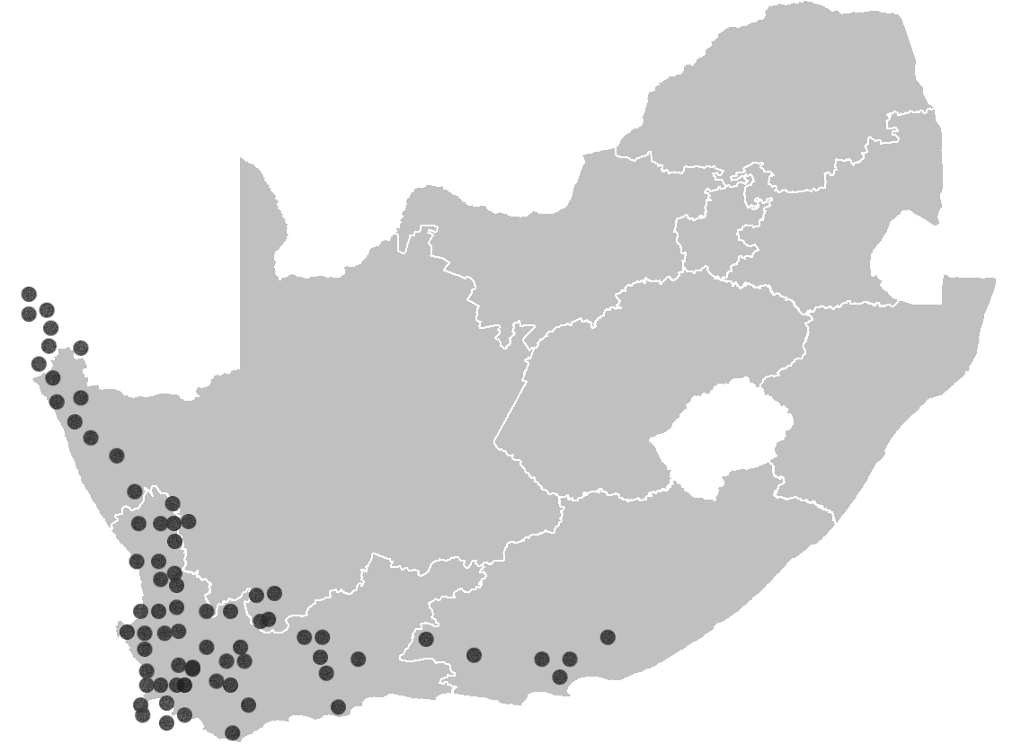 Distribution map of Haemanthus coccineus